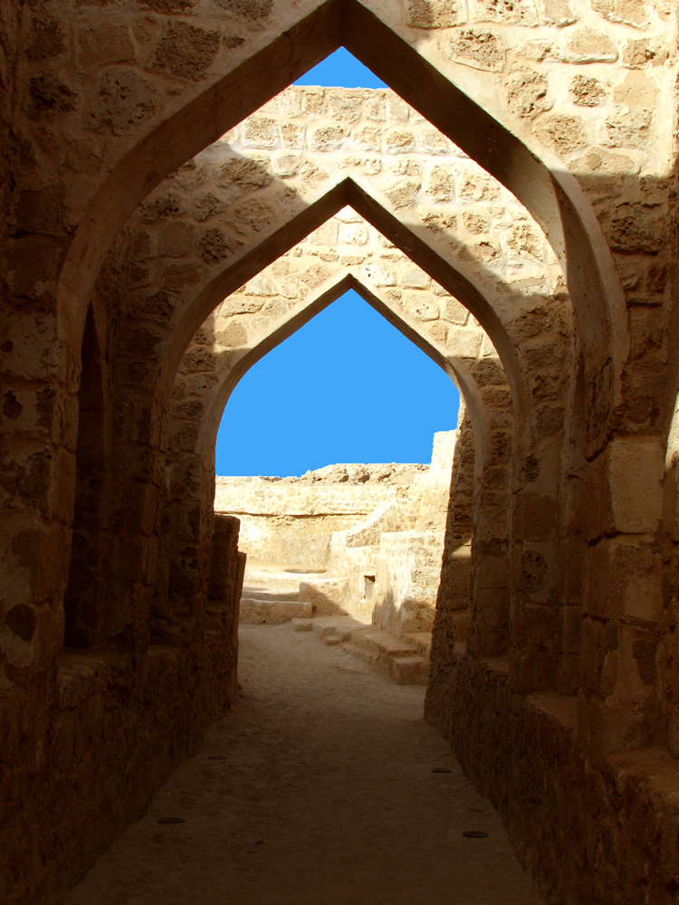 Qal`at al-Bahrain (english:) is an archaeological site located in Bahrain. It is composed of an artificial mound created by human inhabitants from 2300 BC up to the 1700's. Among other things, it was once the capital of the Dilmun civilization, and served more recently as a Portuguese fort. For these reasons, it was inscribed as a UNESCO World Heritage Site in 2005.